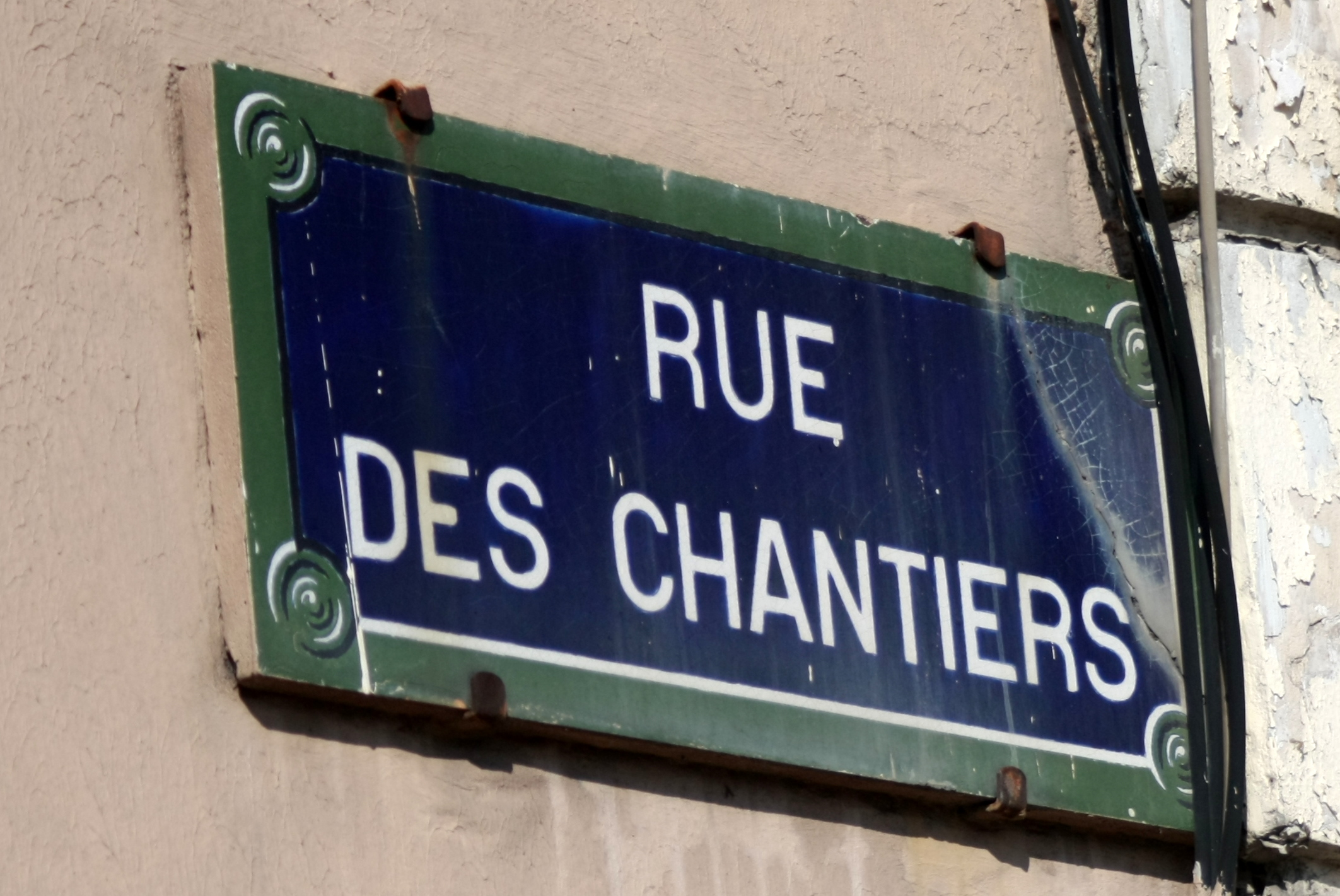 The street where Michael Maddhusudan Dutt dwelled in 1860s